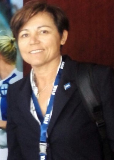 Meryem Yamak